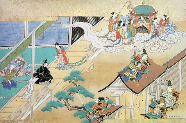 Princess Kaguya returns to the moon. Taketori Monogatari (竹取物語, The Tale of the Bamboo Cutter)